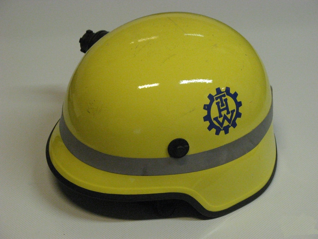 Dräger Helmet HPS 4100